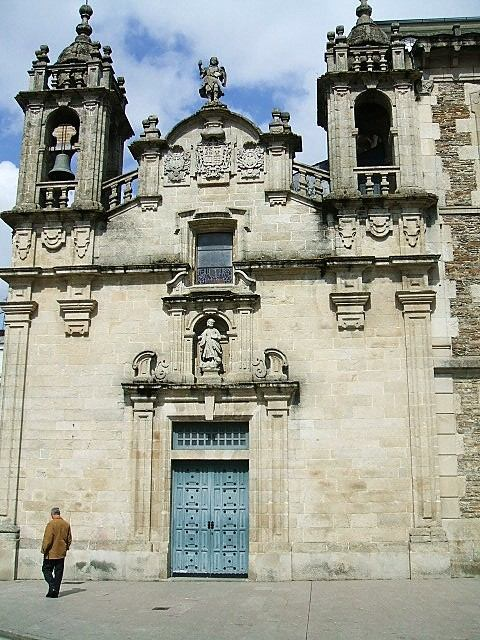 Facade of the San Froilán church, Lugo, Spain.